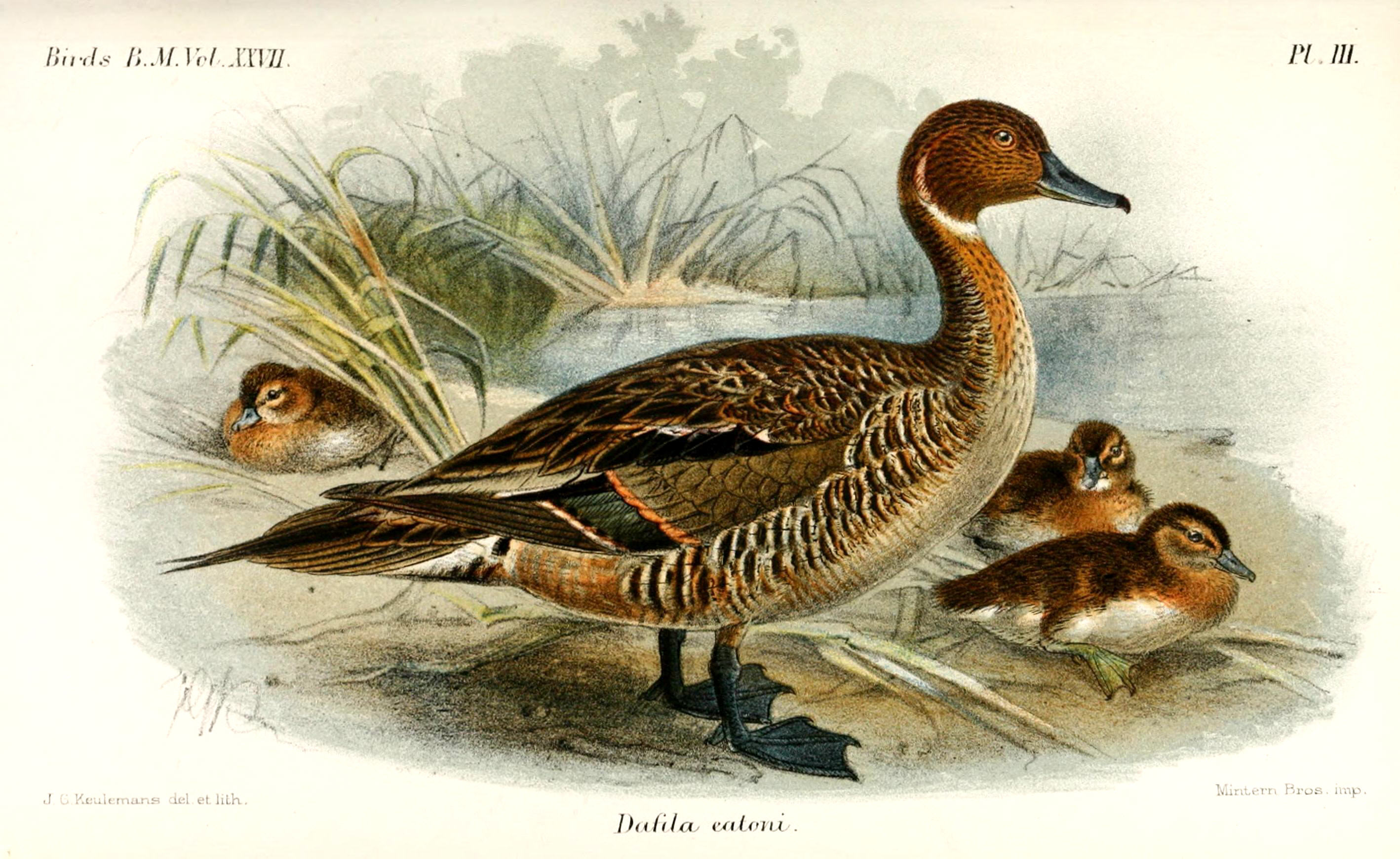 Illustration of Eaton's Pintails by John Gerrard Keulemans